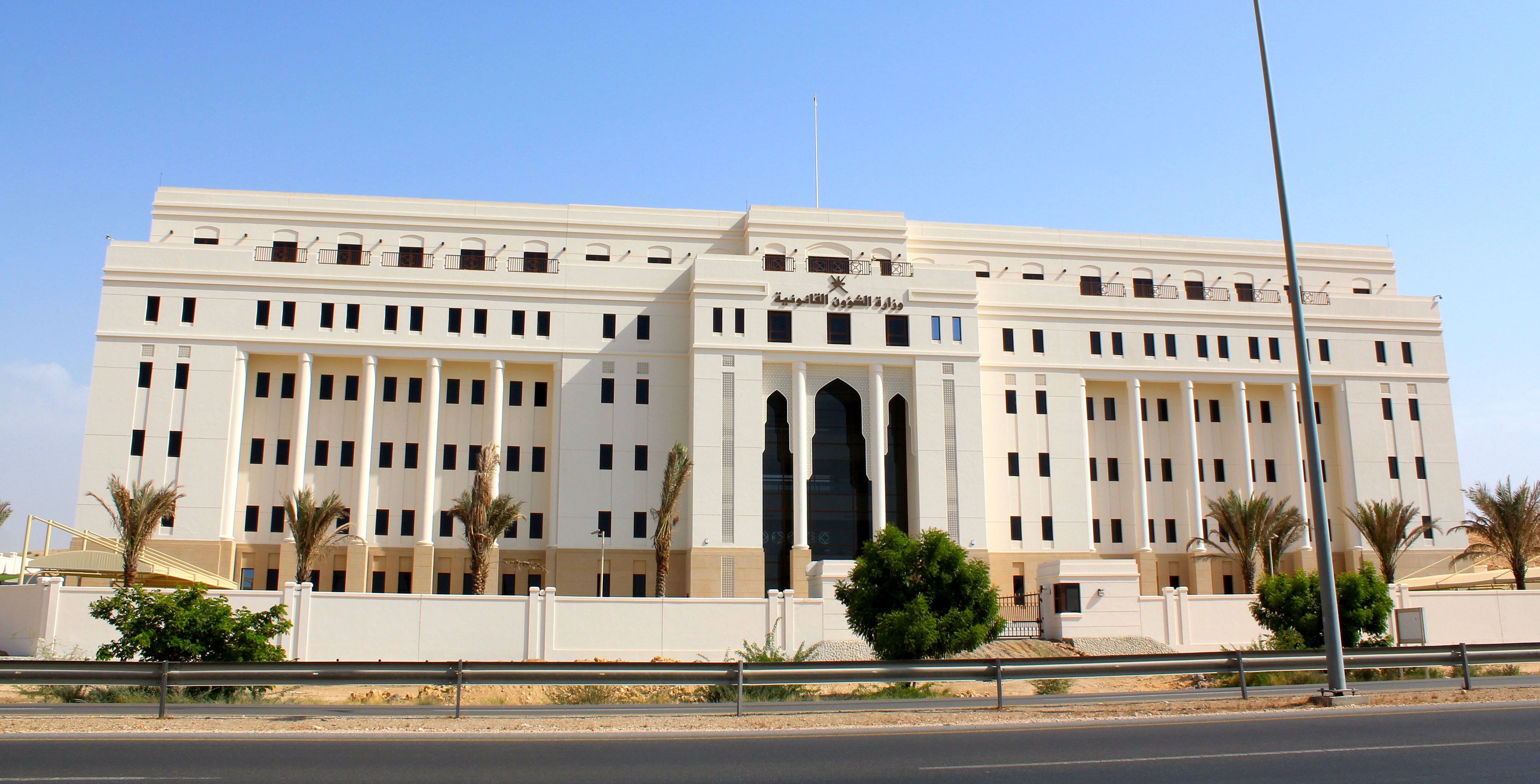 The headquarters of the Ministry of Legal Affairs of the Sultanate of Oman in Bawshar, Muscat.